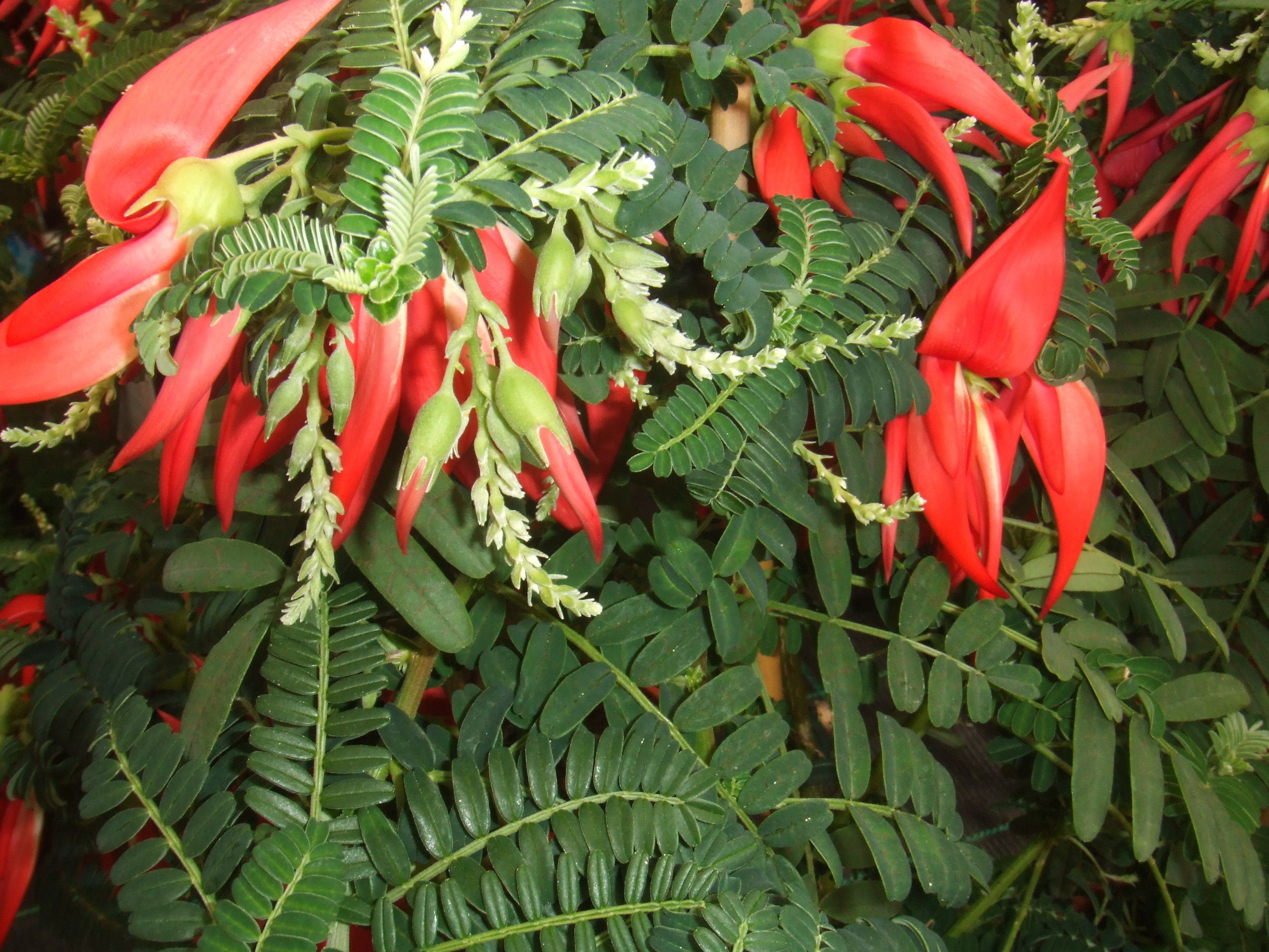 Clianthus puniceus, (Kakabeak), endemic to New Zealand. Picture taken at garden center, Rotterdam, The Netherlands